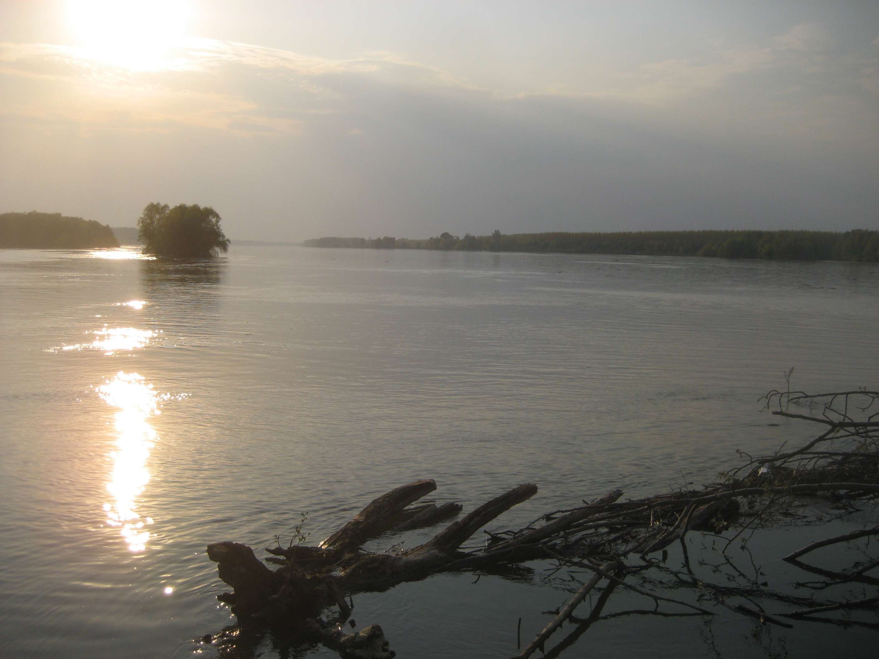 Danube in Ilok, Croatia